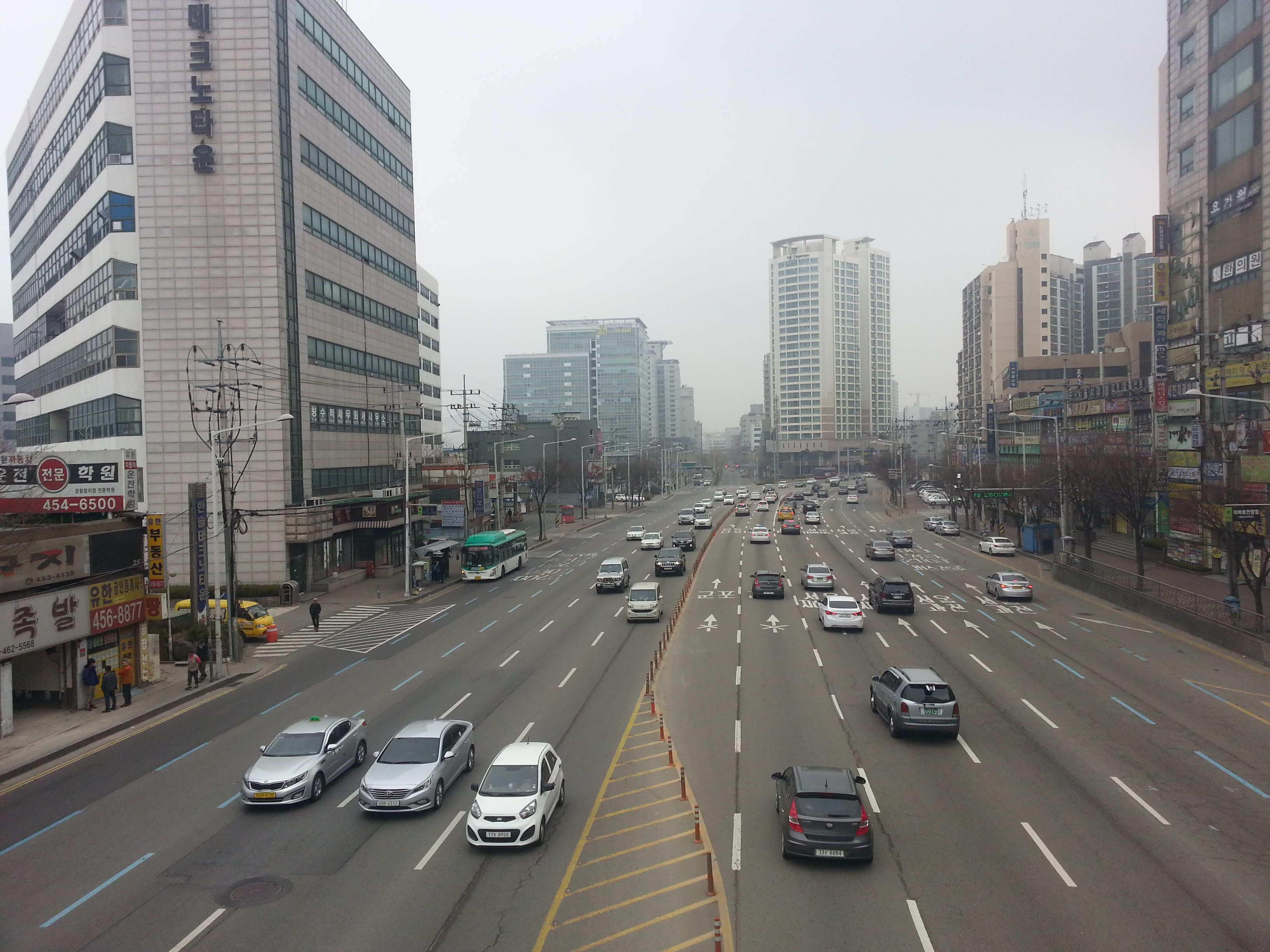 Gyeongsu-daero Blvd, part of National route No. 1 in South Korea. Taken in Anyang-si